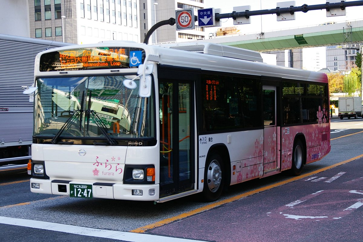 Nakanoshima Loop Bus operated by Hokko-Kanko-Bus, Osaka City, Japan